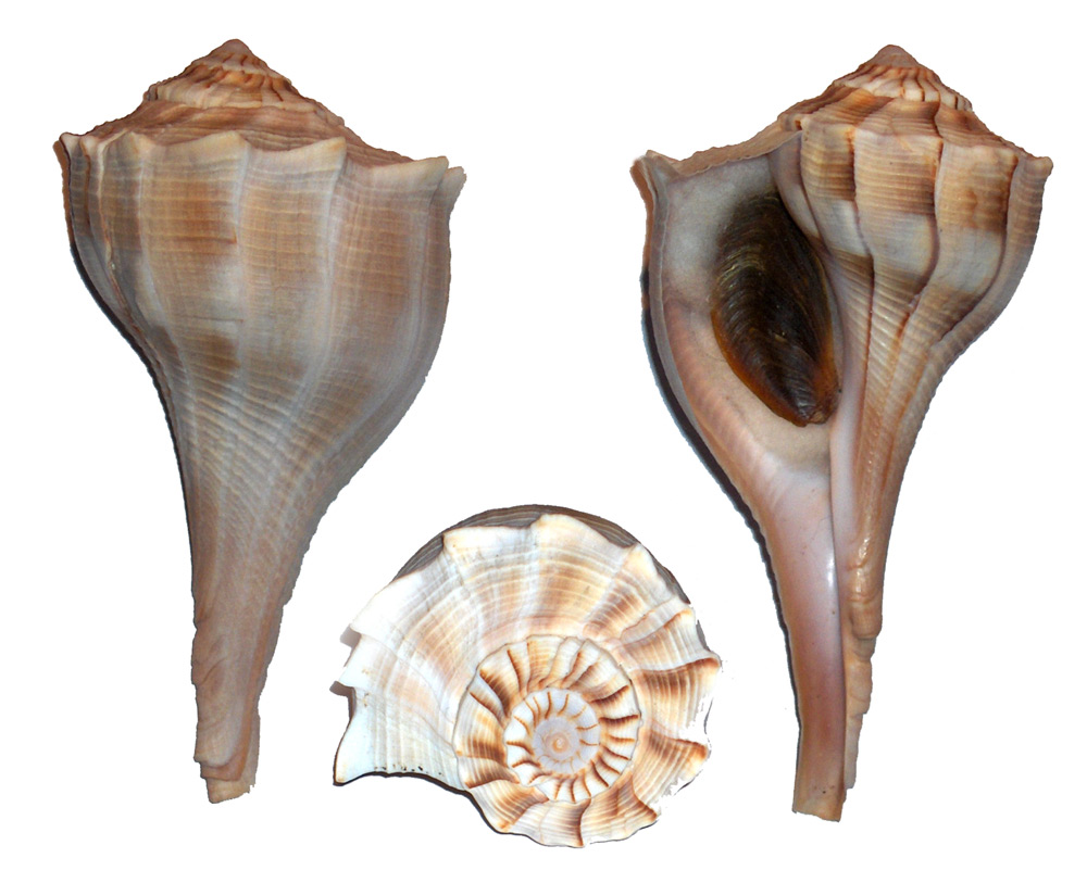 Sinistrofulgur perversum (Linnaeus, 1758) ; Author clmiadfl (Michael Barruel), from Nice, France. This is a shell from my own collecion